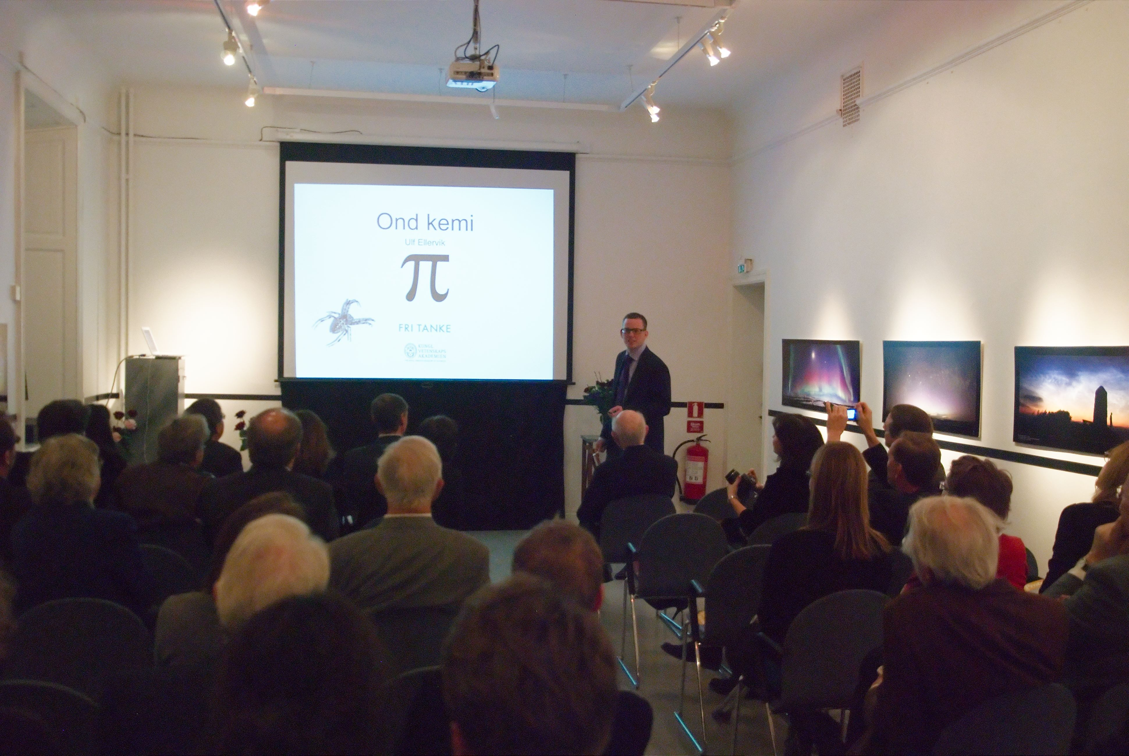 Award of the π-Prize 2010: laureate Ulf Ellervik